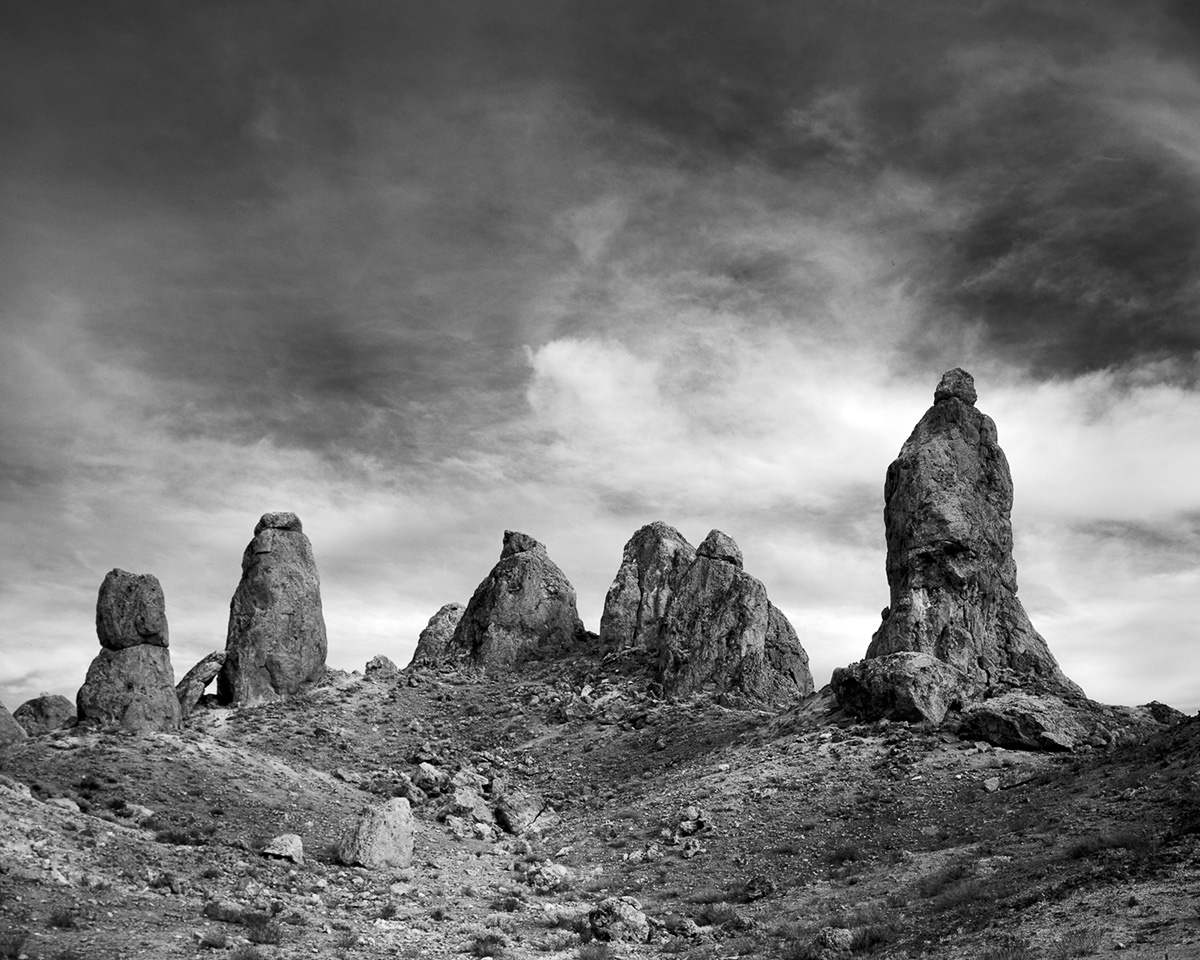 Photographed by Doug Dolde outside Trona, California, 2007 Arca Swiss 4x5 view camera, Fujichrome Provia 100F transparency film. More images from this location at